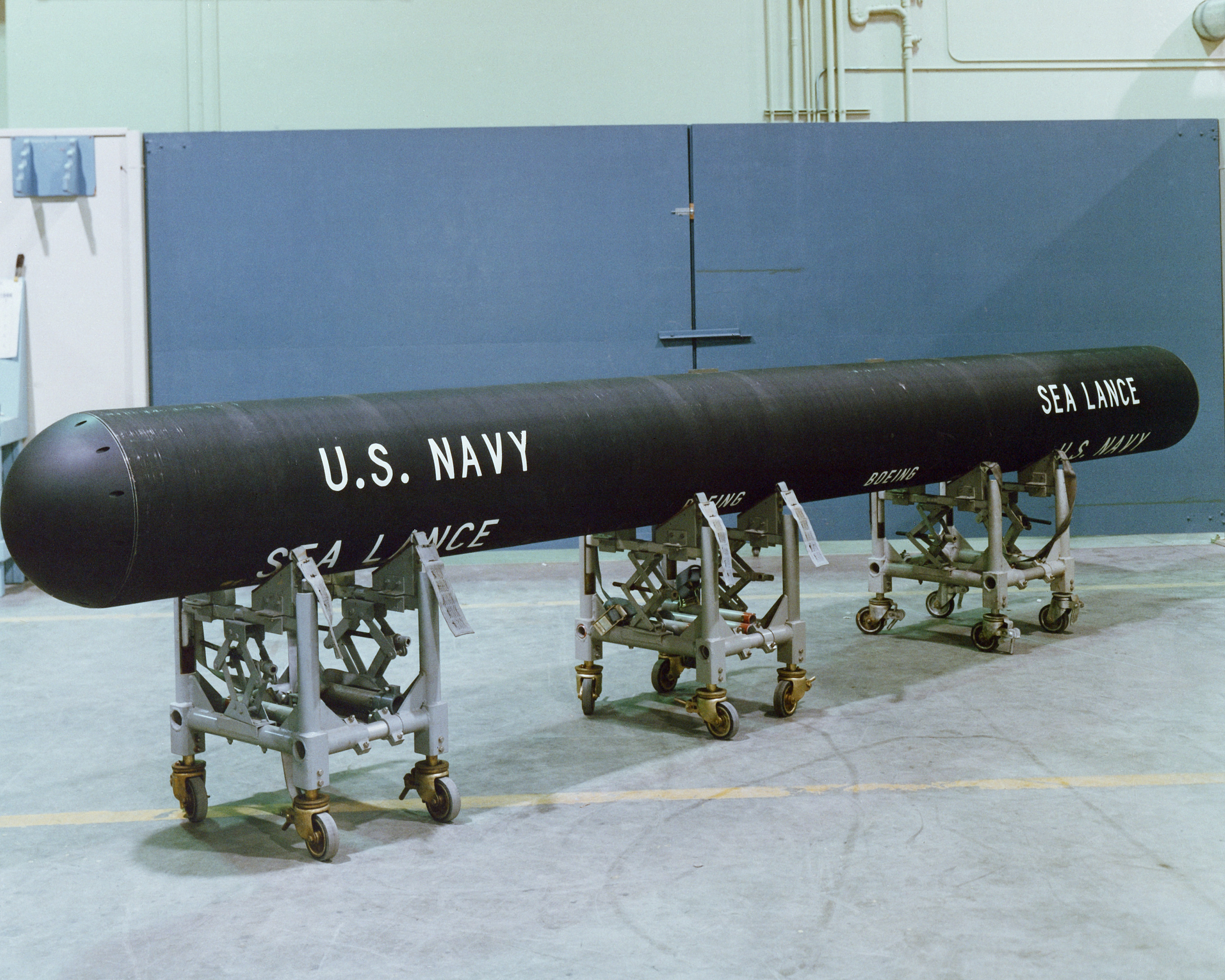 An in-service capsule for the Sea Lance anti-submarine warfare stand-off weapon.